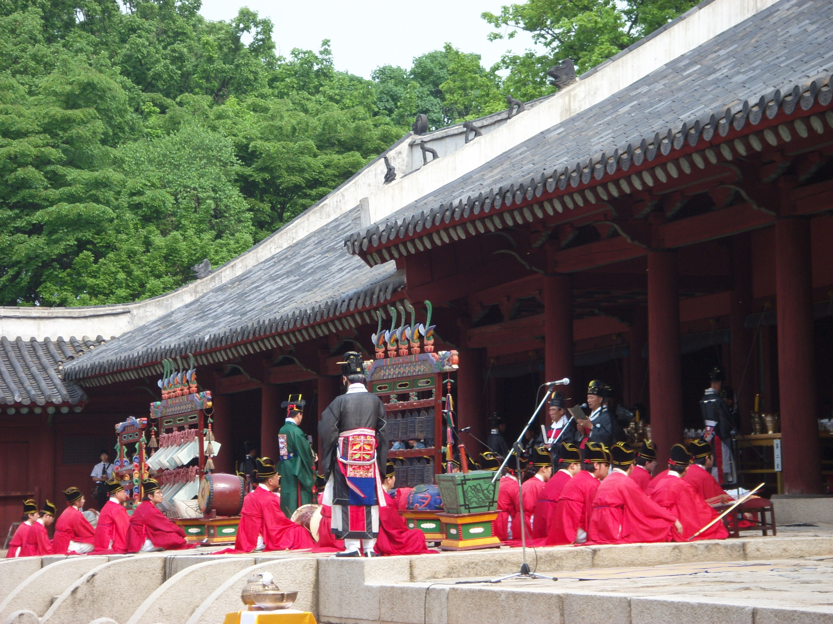 An elaborate performance of Korean ancient court music (with accompanying dance) known as Jongmyo jeryeak (hangul: 종묘제례악; hanja: 宗廟祭禮樂) is performed there each year in May. Musicians, dancers, and scholars would perform Confucian rituals, such as the Jongmyo Daeje (Royal Shrine Ritual) in the courtyard five times a year. Today the rituals have been reconstructed and revived. The Jongmyo Daeje has been designated as Important Intangible Cultural Property No. 56.